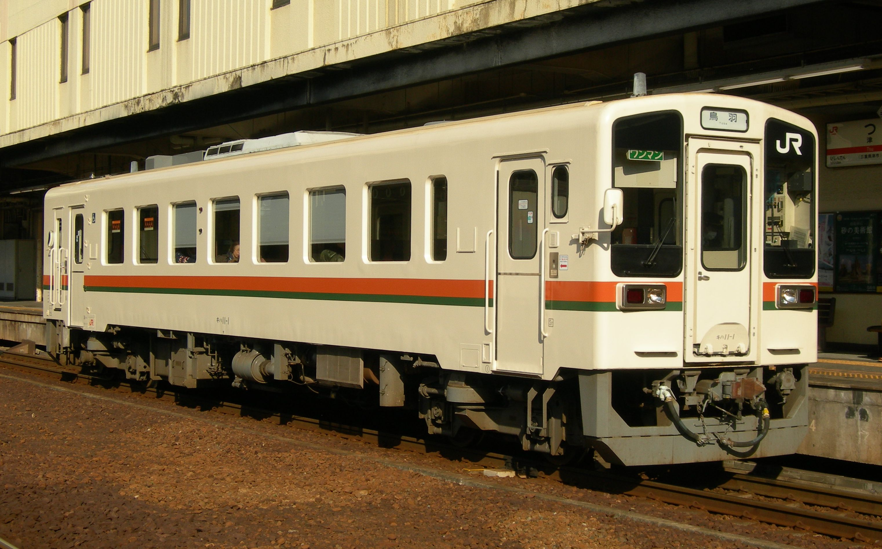 JR Central KiHa 11 diesel car KiHa 11-1 at Tsu Station